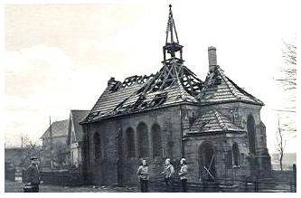 Ruin of the in march 1934 burnt down protestant church in Altenbeken, Germany